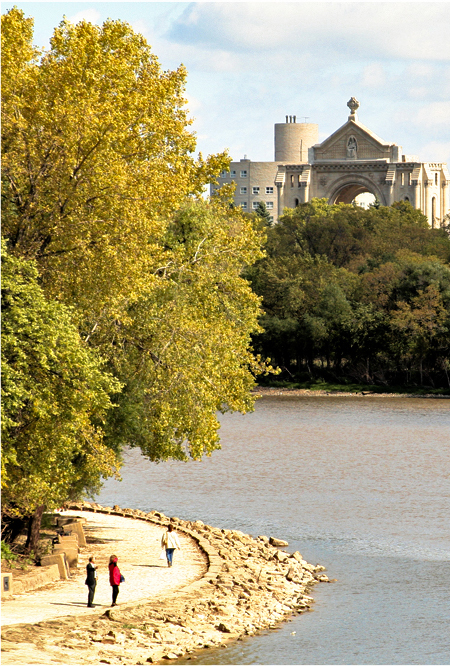 Popular among residents and tourists alike, the river walkway is a great way to discover and see the rivers